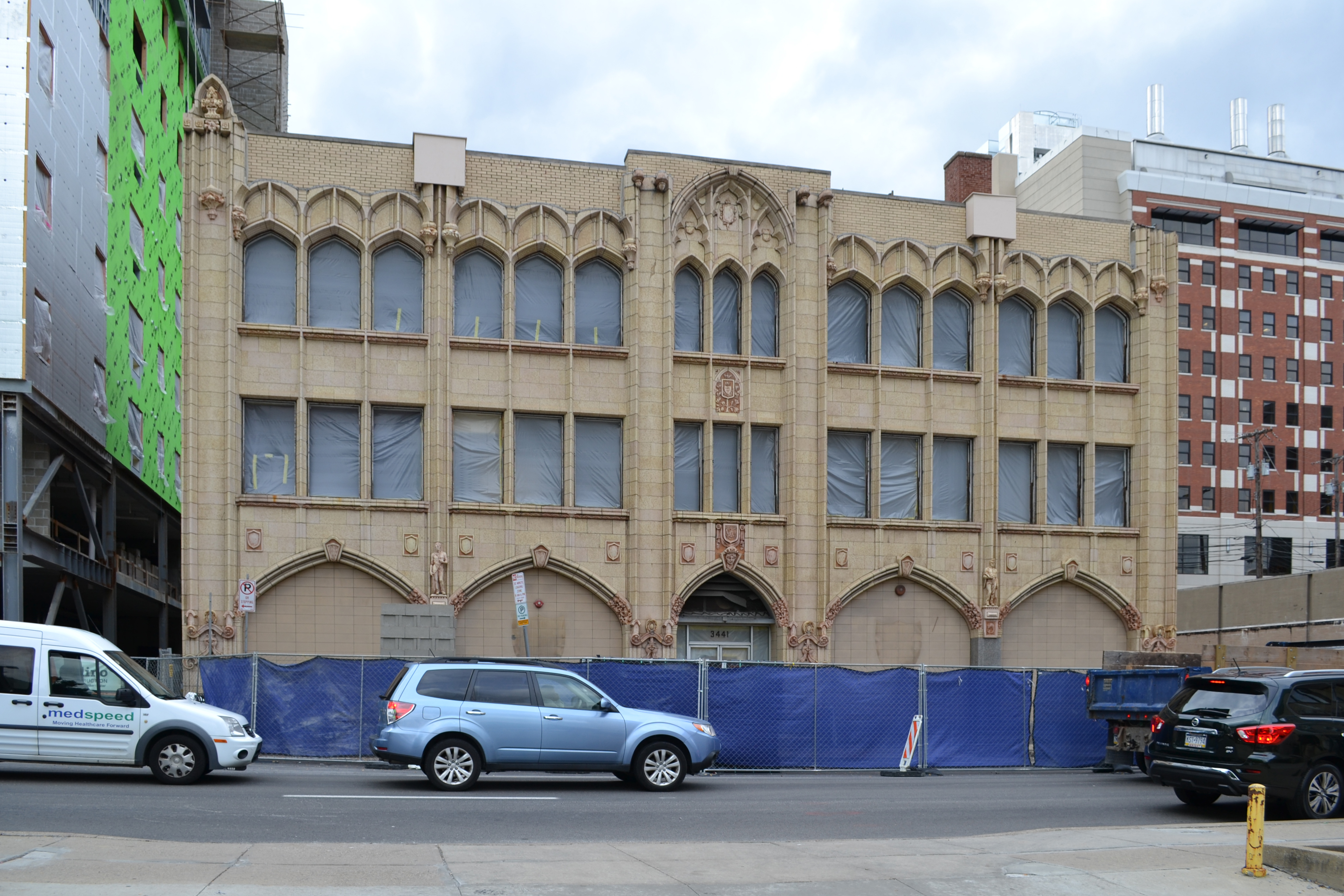 The former Croatian Fraternal Union building in Pittsburgh, Pennsylvania, USA